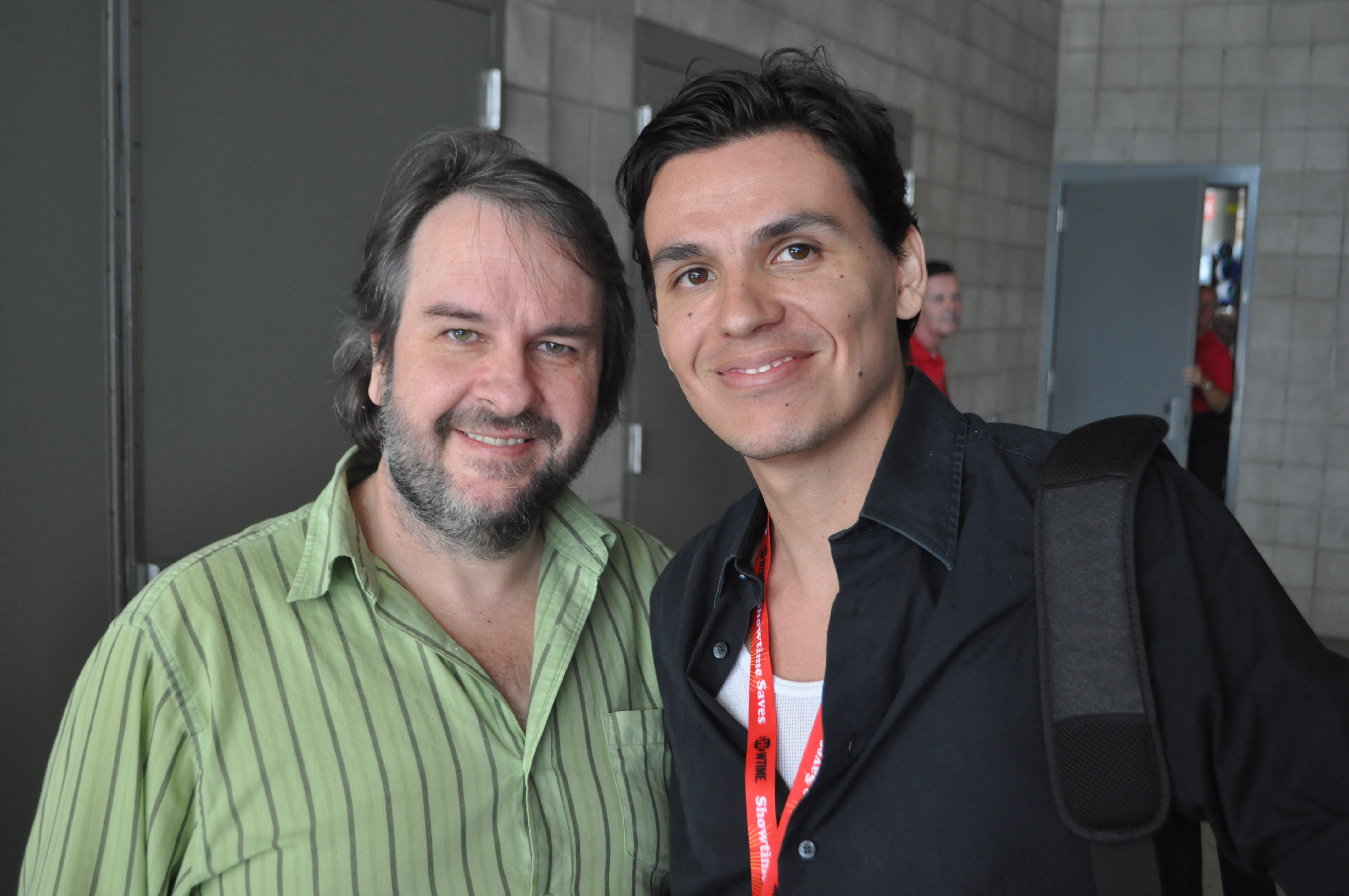 writer-directors Peter Jackson and Andres Useche